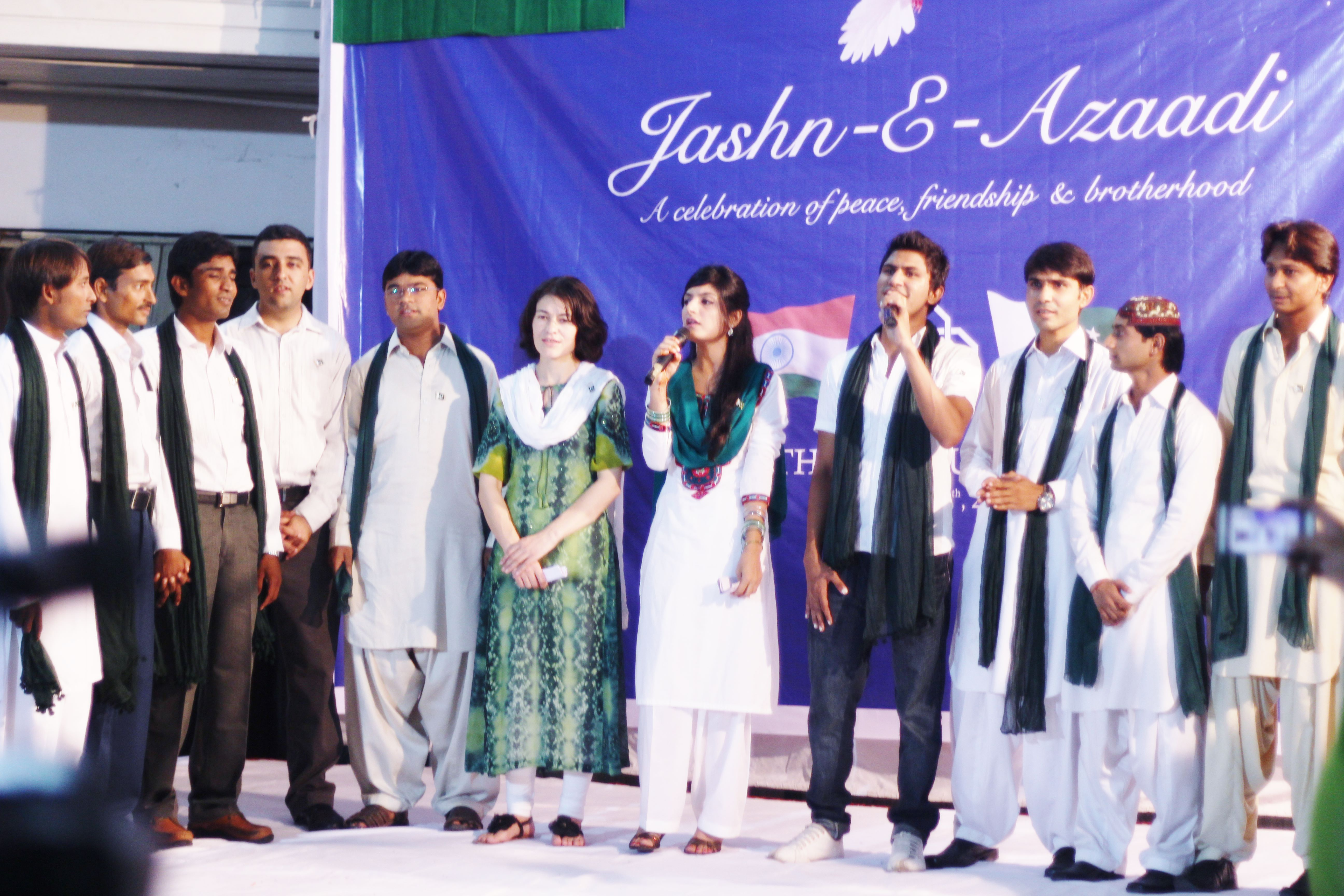 Joint Independence Day Celebration by Indian and Pakistani students at South Asian University in New Delhi